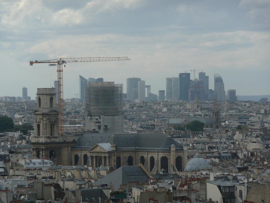 La Défense from le Panthéon